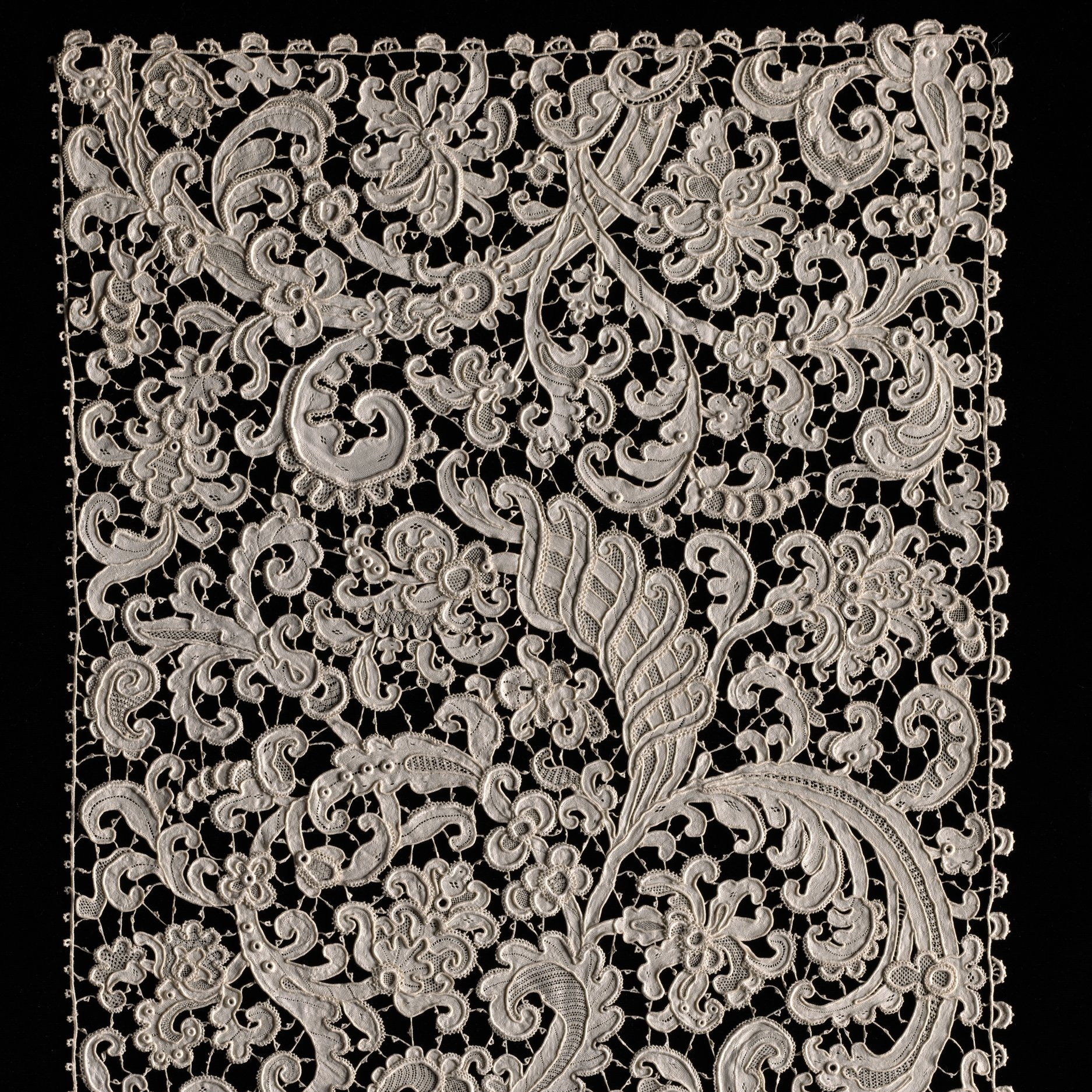 A sample of Venetian Raised Point lace work (Venetian needlepoint, point de Venise). Cropped from File:Italy, Venice, second half of 17th century - Needlepoint (Venetian Raised Point) Lace Flounce - 1936.82 - Cleveland Museum of Art.jpg to a square aspect ratio.